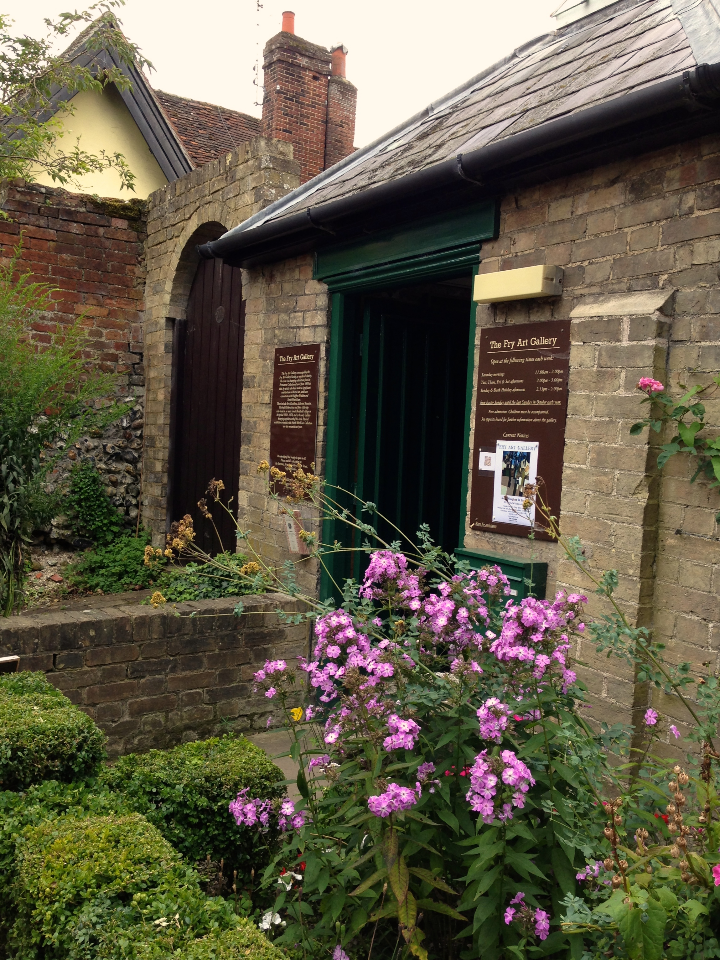 Entrance to Fry Art Gallery, a small gallery in Saffron Walden, Essex. Founded by Frances Gibson, a local Quaker, and passed to the Fry family, it now houses work by the Great Bardfield Artists, including Edward Bawden and Eric Ravilious